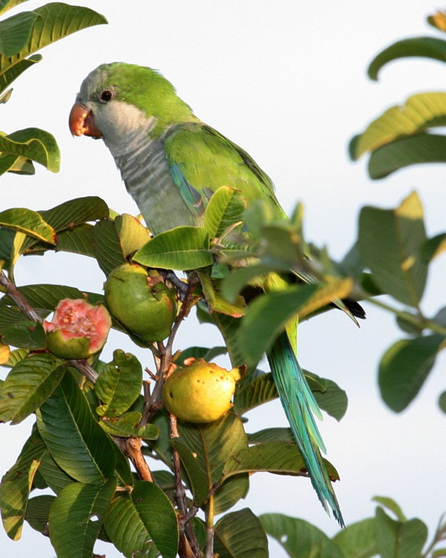 Monk Parakeet (Myiopsitta monachus) in the Ibera Marshes, Argentina on 2 April 2006. Distribution: and